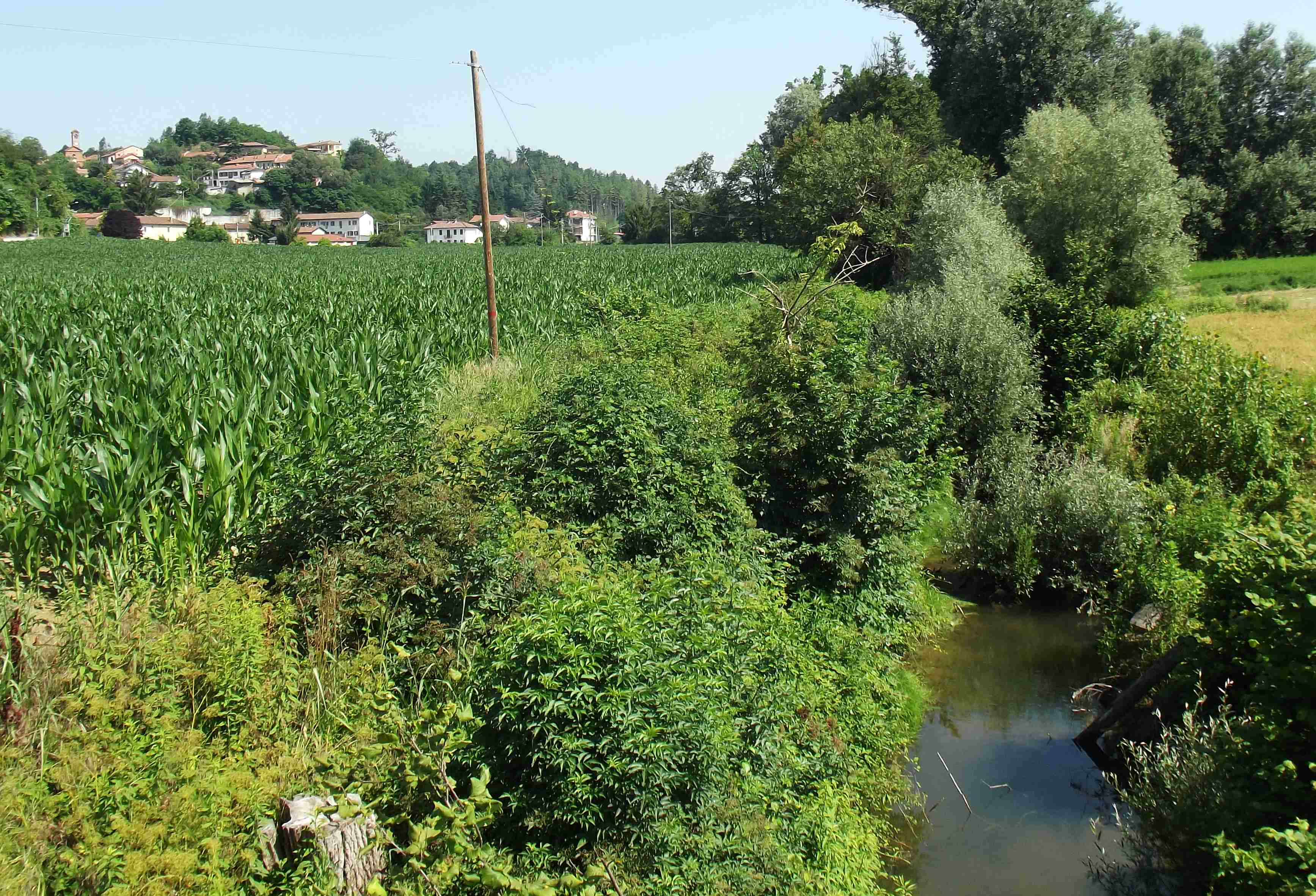 Rio di Monale and, on its left, the village of Cortandone (AT, Italy)